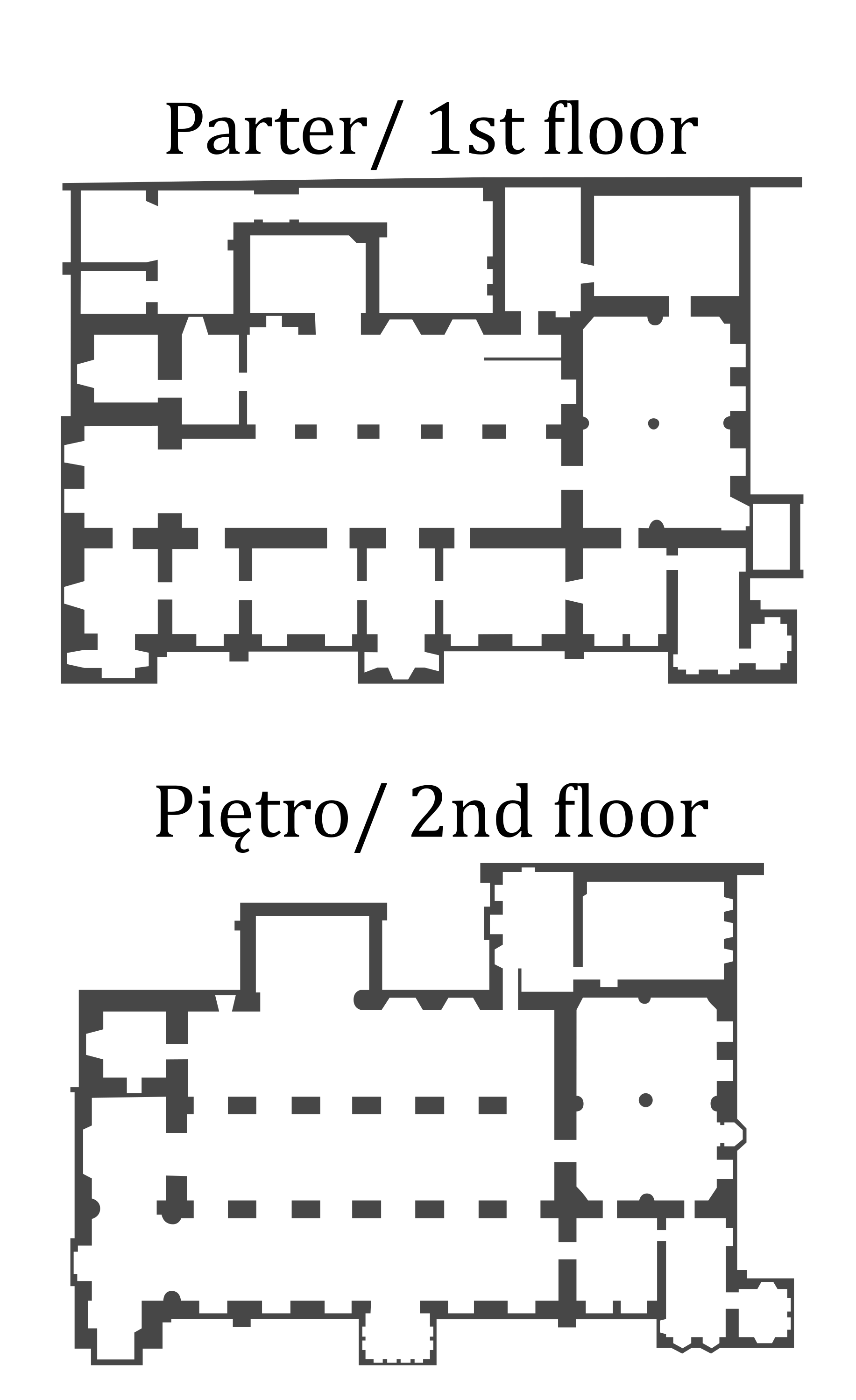 Plan of Old Town Hall in Wroclaw